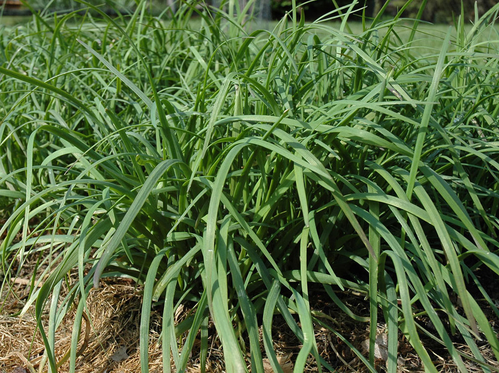 Garlic chives grown as herb in a vegetable garden